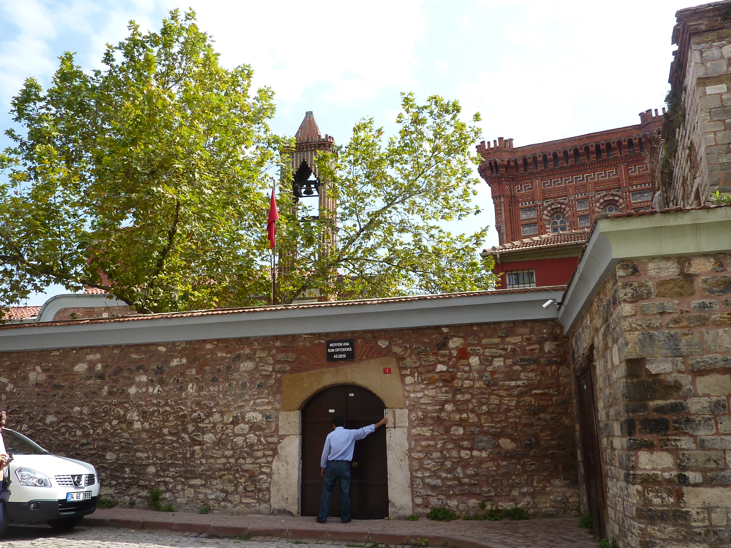 Church of St Mary of the Mongols, Istanbul